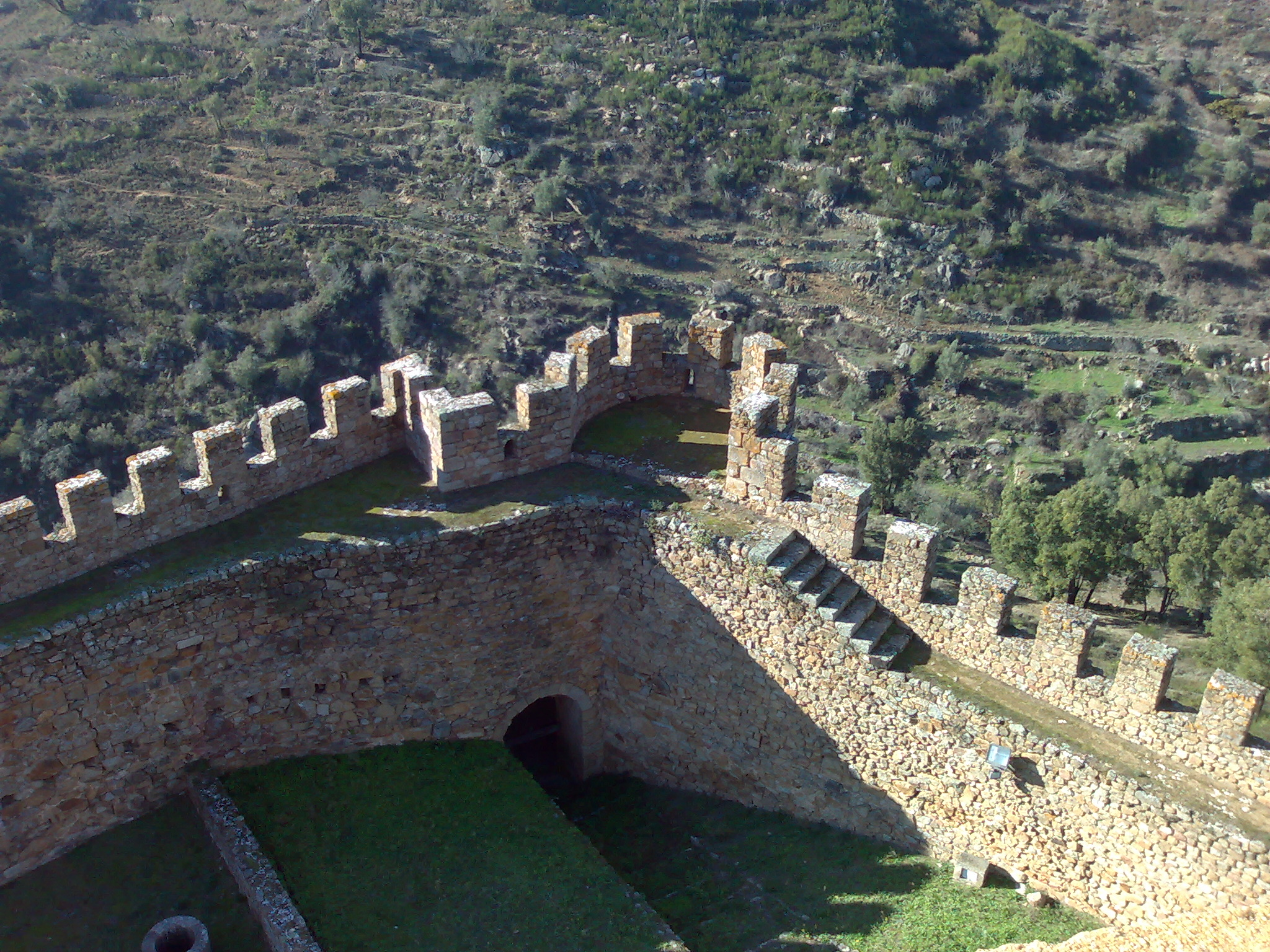 Detail from the walls of the Belver castle, Gavião, Portugal.